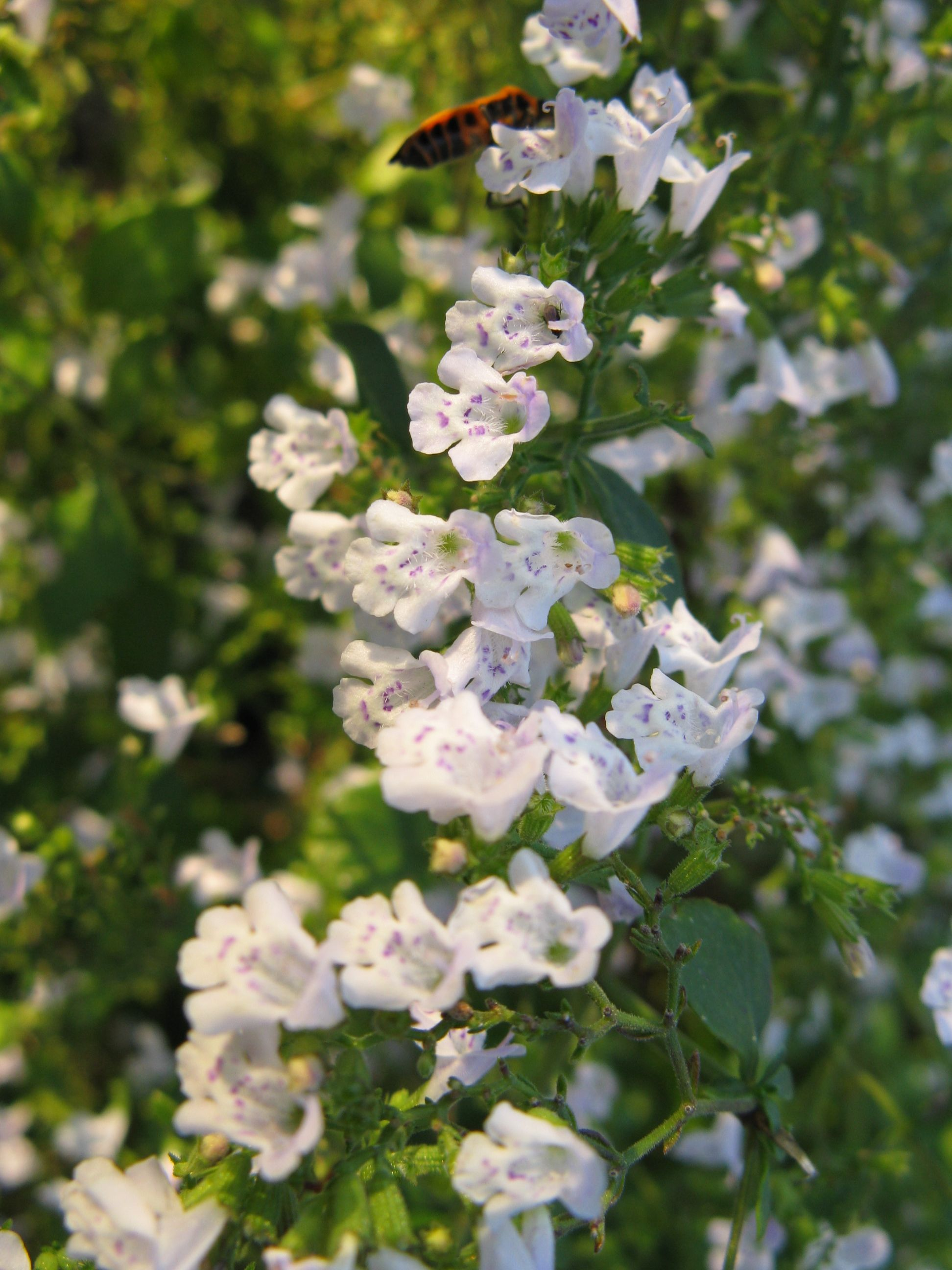 Calamintha nepeta